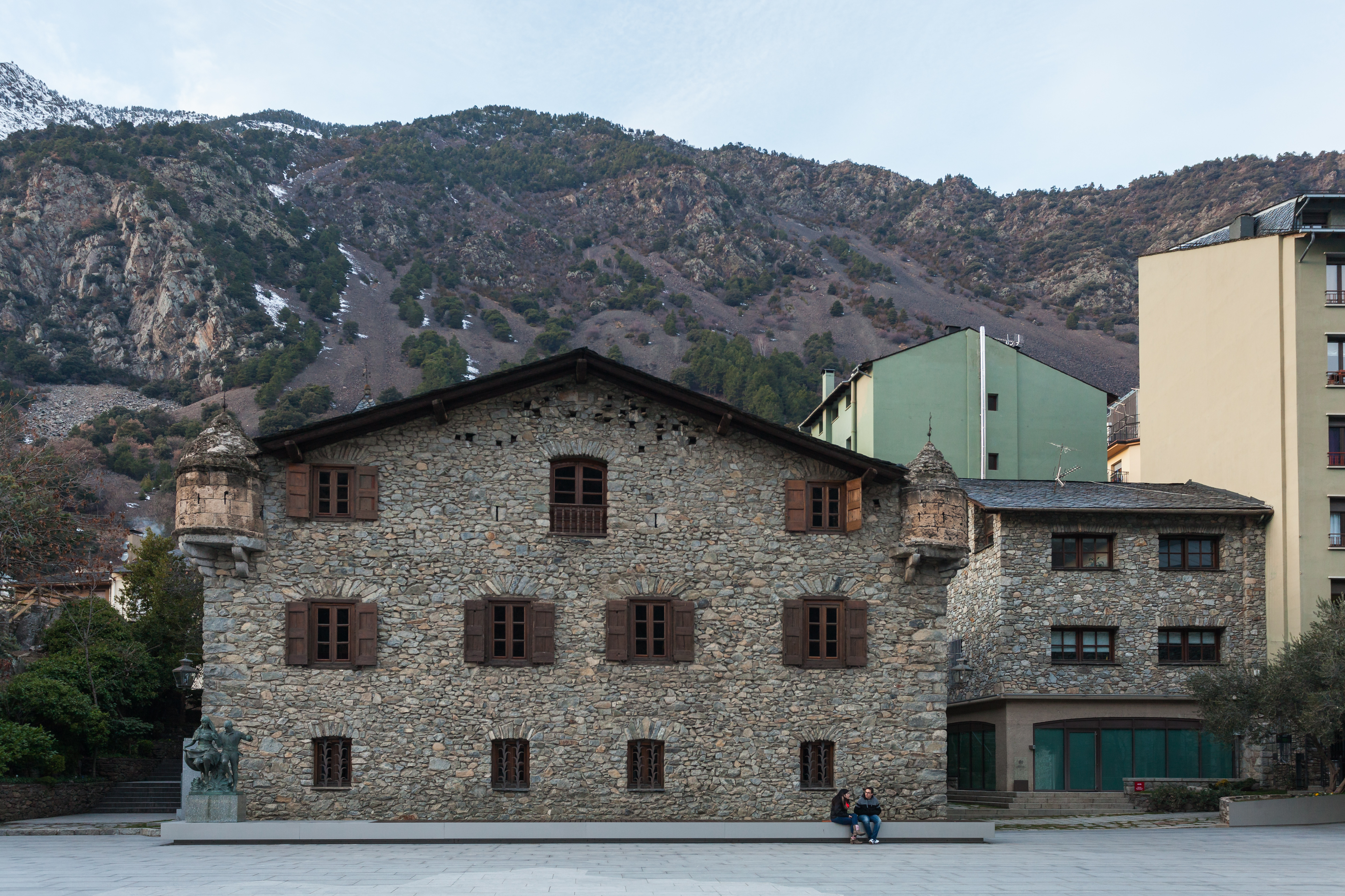 Casa de la Vall, Andorra la Vella, Andorra